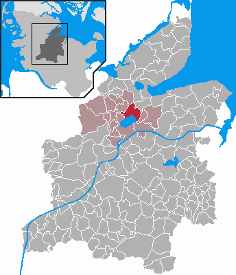 Locator maps of municipalities in Schleswig-Holstein - District Rendsburg-Eckernförde